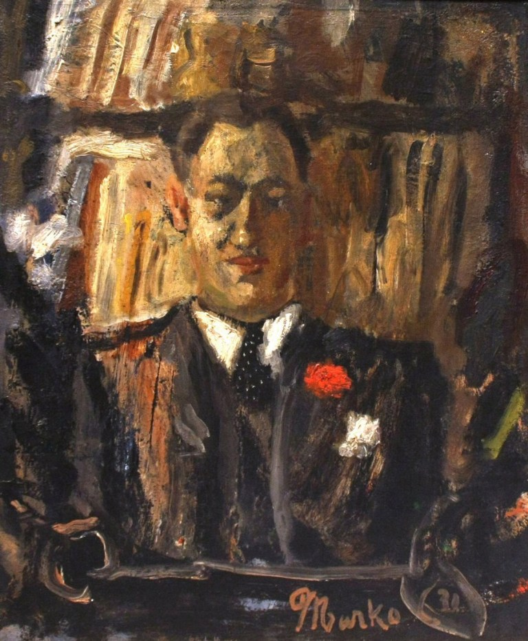 Marko Čelebonović's portrait of Milan Jovanović Stojimirović, 1931